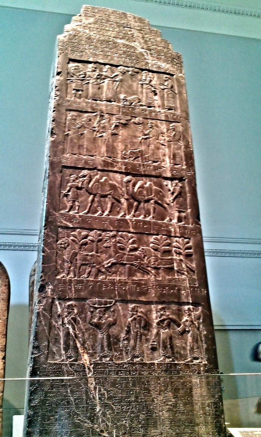 The Black Obelisk of Shalmaneser III (858-824 BC, Asyrian, from Nimrud, near the Shalmaneser Building) - British Museum